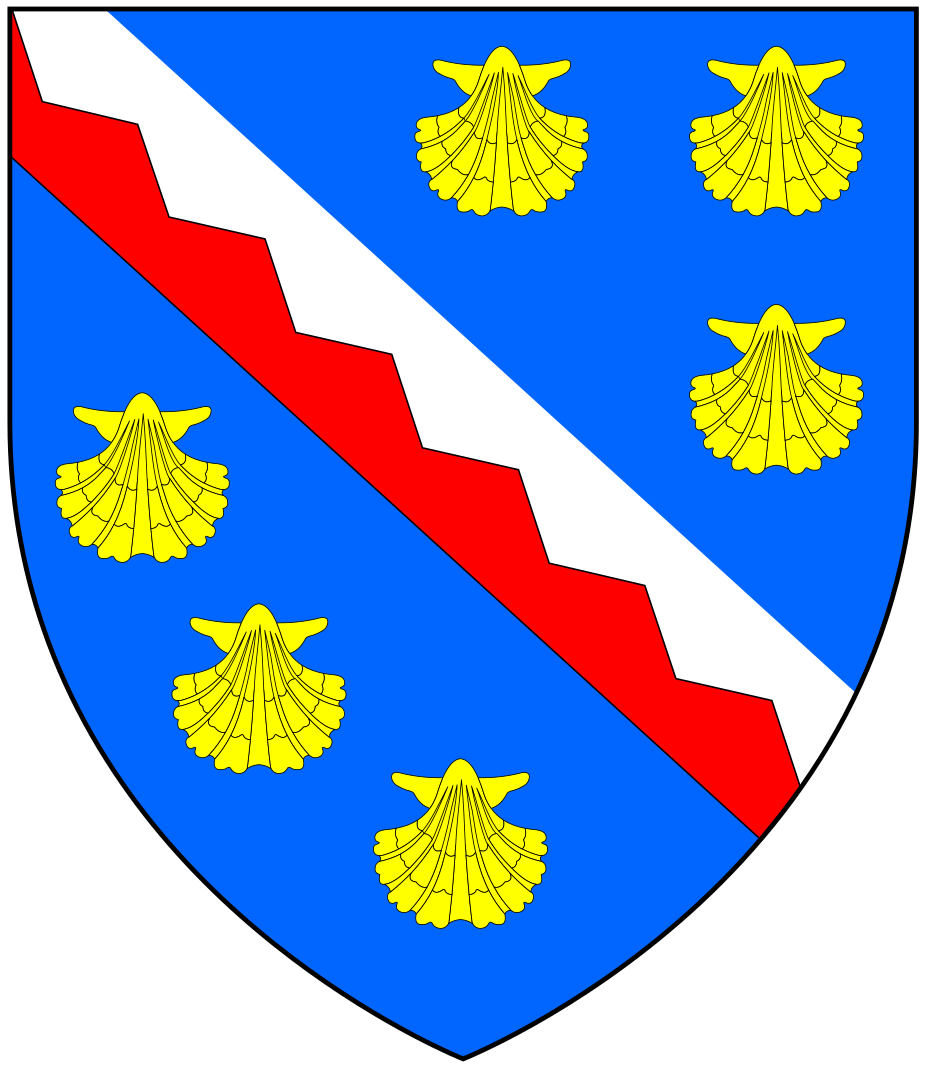 Arms of Cruwys of Cruwys Morchard, Devon: Azure, a bend per bend indented argent and gules between six escallops or (Vivian, Lt.Col. J.L., (Ed.) The Visitations of the County of Devon: Comprising the Heralds' Visitations of 1531, 1564 & 1620, Exeter, 1895, p.256)